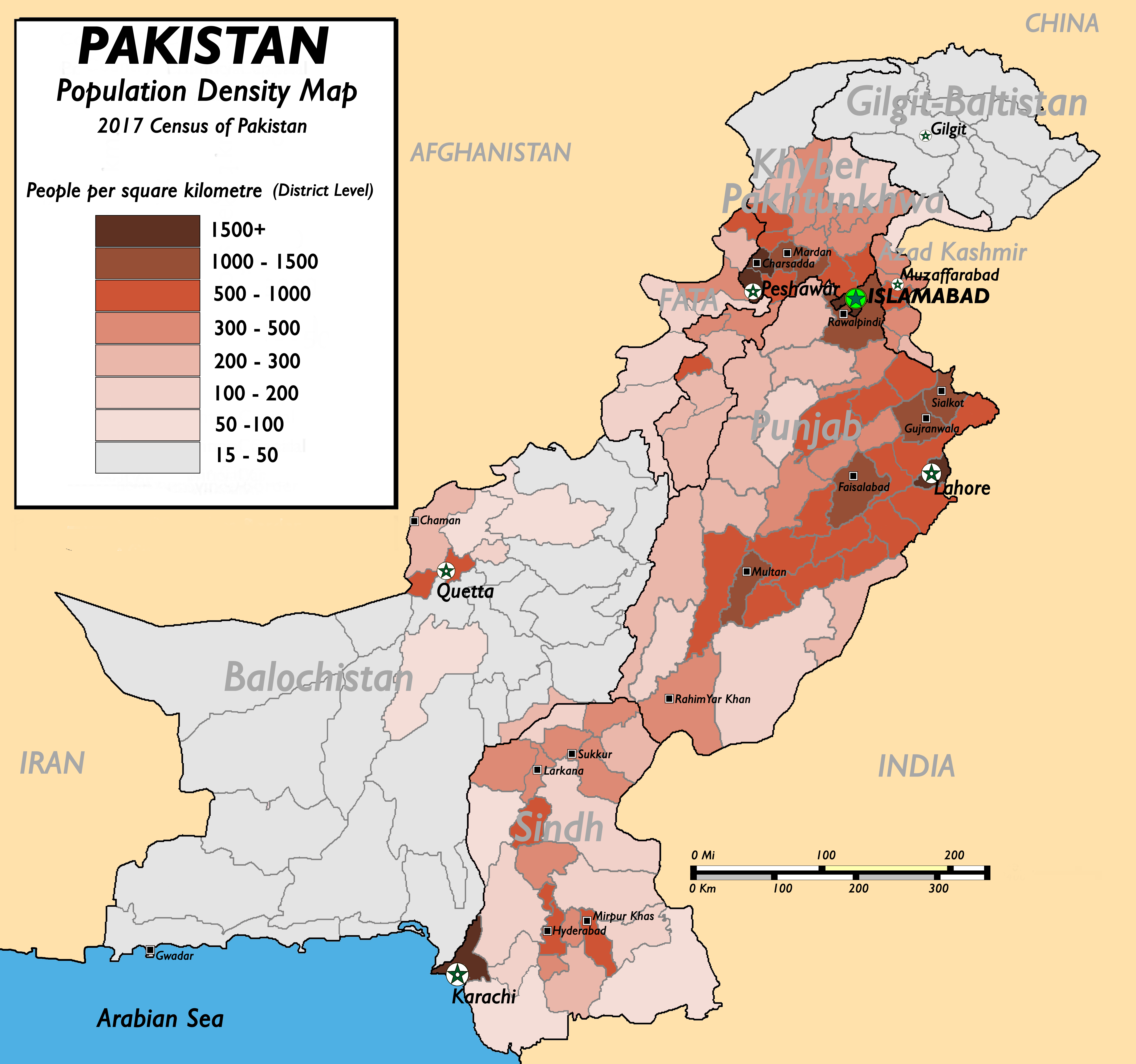 Pakistan Population Density Map (English). (Abbreviations used: 1. NWFP = North West Frontier Province, 2. FATA = Federally Administered Tribal Areas.)